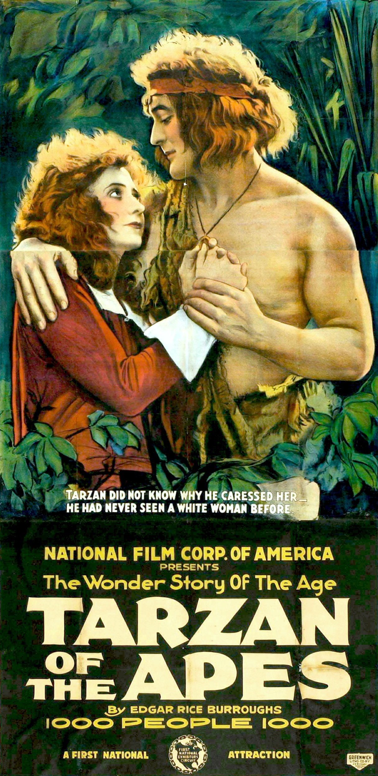 Tarzan of the Apes, 1918 silent film, alternate publicity poster